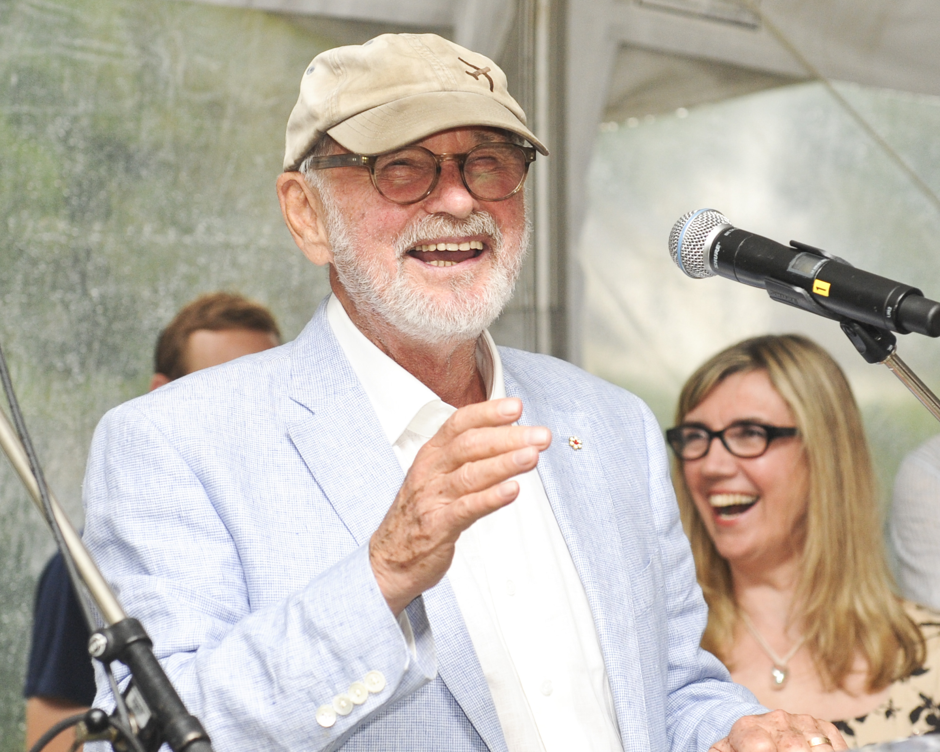 Canadian Film Centre founder Norman Jewison at the 2012 CFC Garden Party